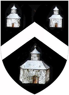 Arms of Shapcott: Sable, a chevron between three dovecotes argent. As depicted in stained glass in east window of Shute Church, Devon, impaled by arms of Pole of Shute, representing the marriage of Sir Courtenay Pole, 2nd Baronet (1619-1695) and Urith Shapcott, daughter of Thomas Shapcott of Shapcott in the parish of Knowstone, Devon. Elsewhere the arms are shown with a chevron or (Barnstaple Church on Tucker monument), or without chevron (in Knowstone Church). (Vivian, Heraldic Visitations of Devon, 1895, pp.603, Pole & p. 677, Shapcott, blazoned with chevron or)